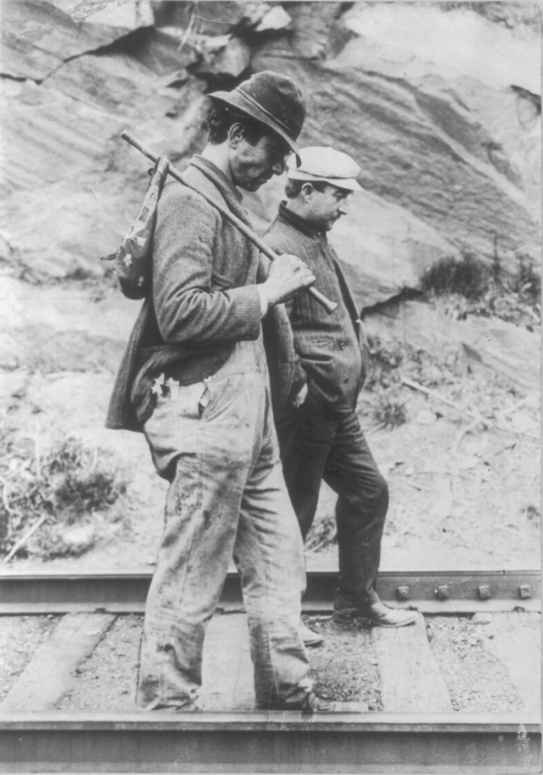 Two hobos walking along railroad tracks, after being put off a train.